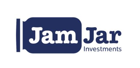 Company logo